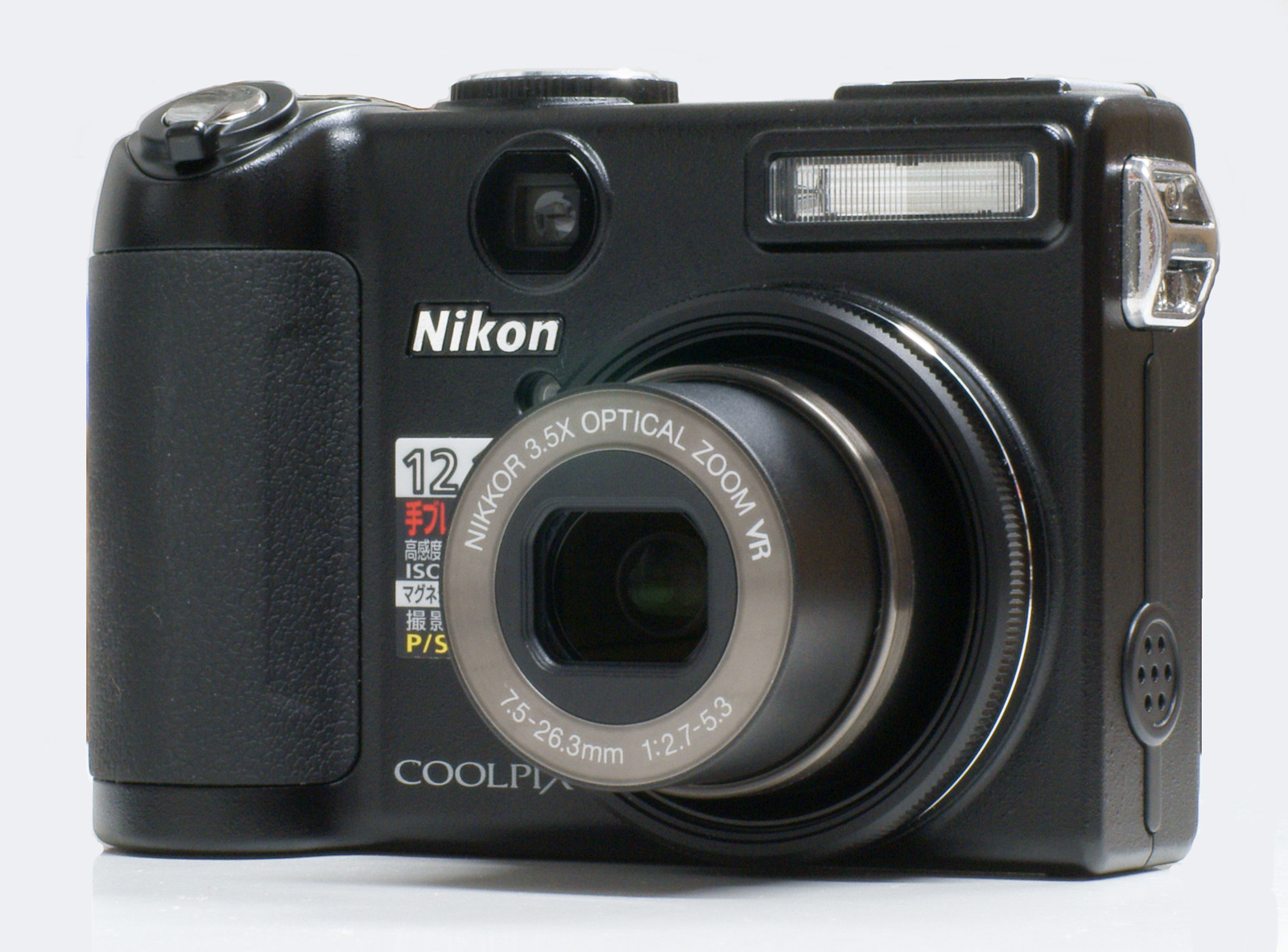 Nikon Coolpix P5100 Compact Digital Camera[1][2]